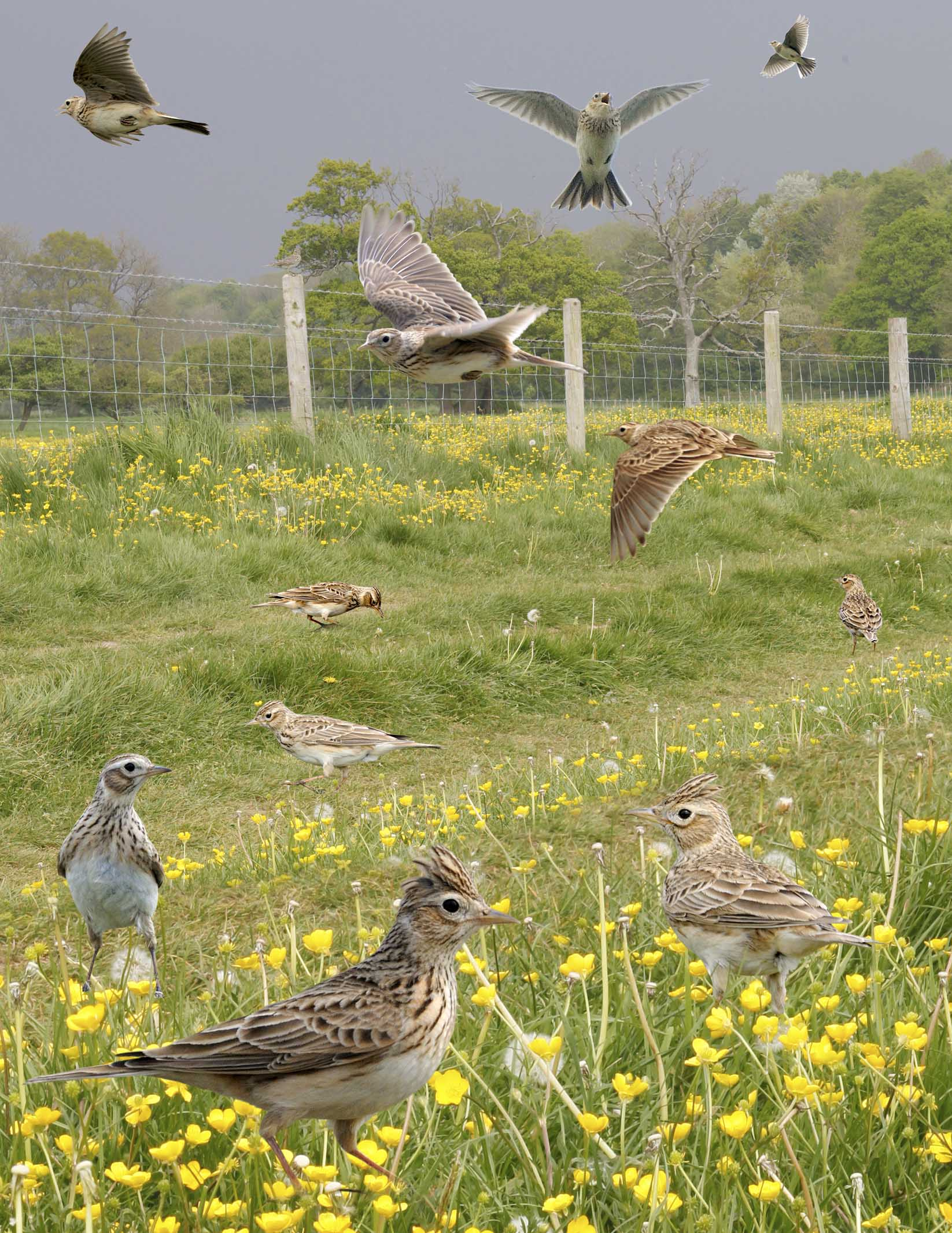 Skylark from the Crossley ID Guide Britain and Ireland